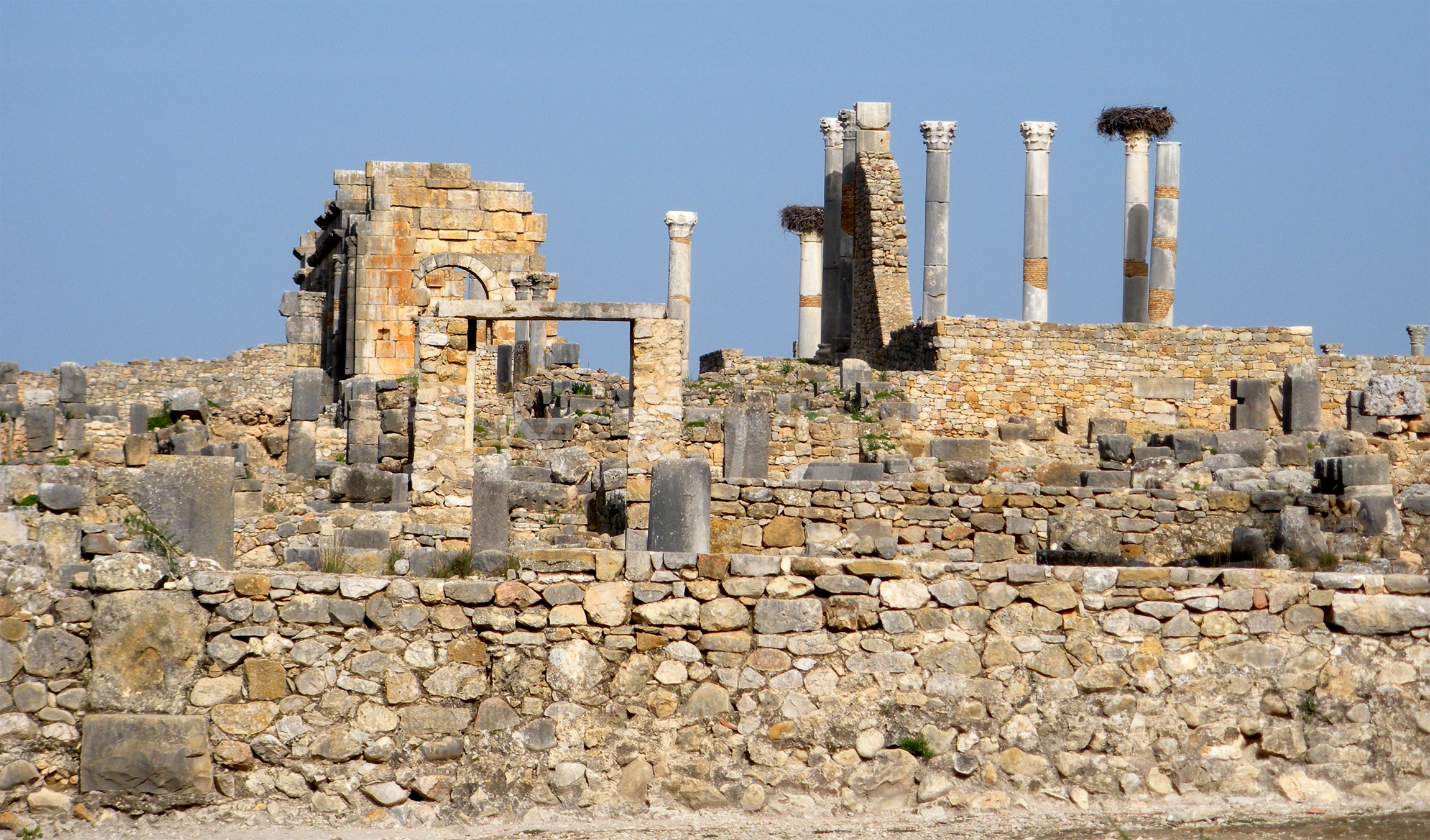 An overview shot of the Roman ruins of Volubilis, near Meknes, Morocco. It overwrites another picture, as I feel that mine is of better quality and gives a more overall impression of the site.